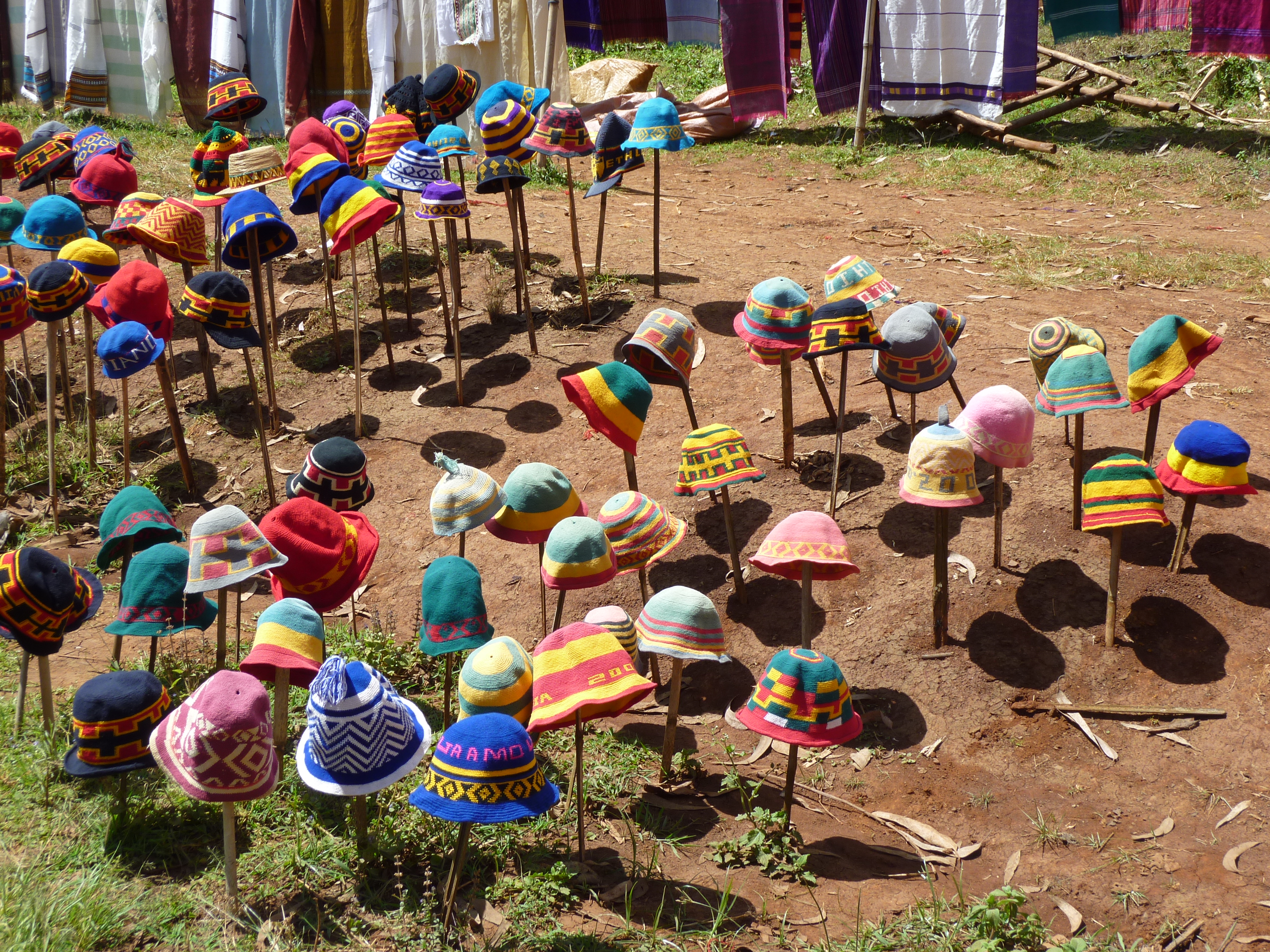 Dorze people hats, Ethiopia